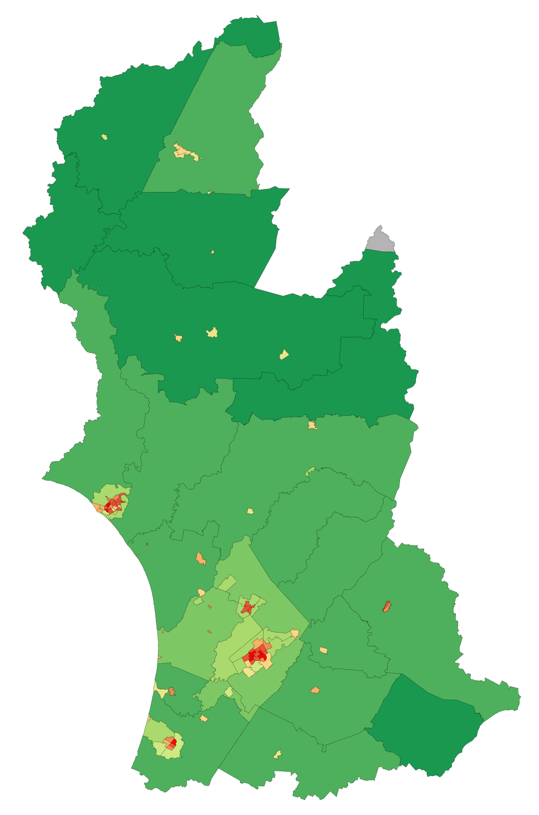 Map showing population density of a region of New Zealand (by Statistics NZ Area Unit) as of the 2006 census